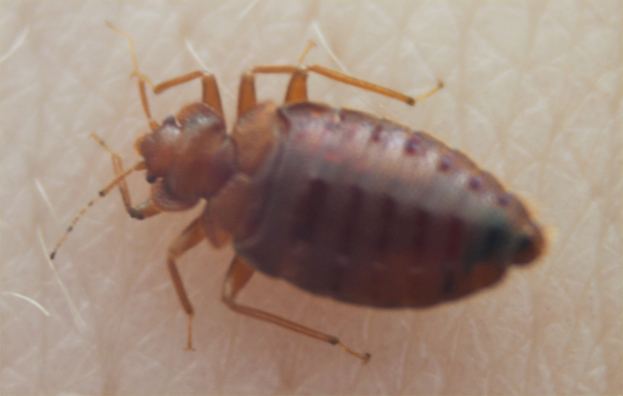 bedbug (Cimex sp.)